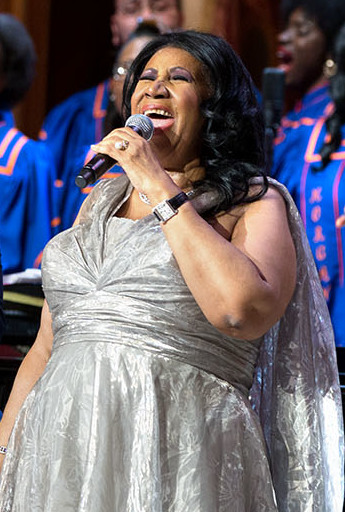 Aretha Franklin performs during "The Gospel Tradition: In Performance at the White House" in the East Room of the White House, April 14, 2015. (Official White House Photo by Pete Souza)